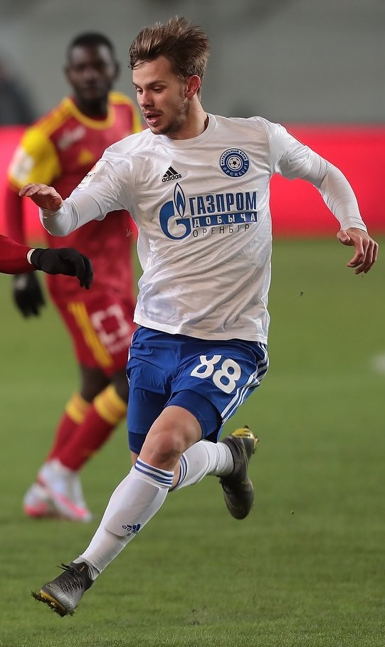 Artyom Galadzhan with FC Orenburg in a Russian Cup game against FC Arsenal Tula.